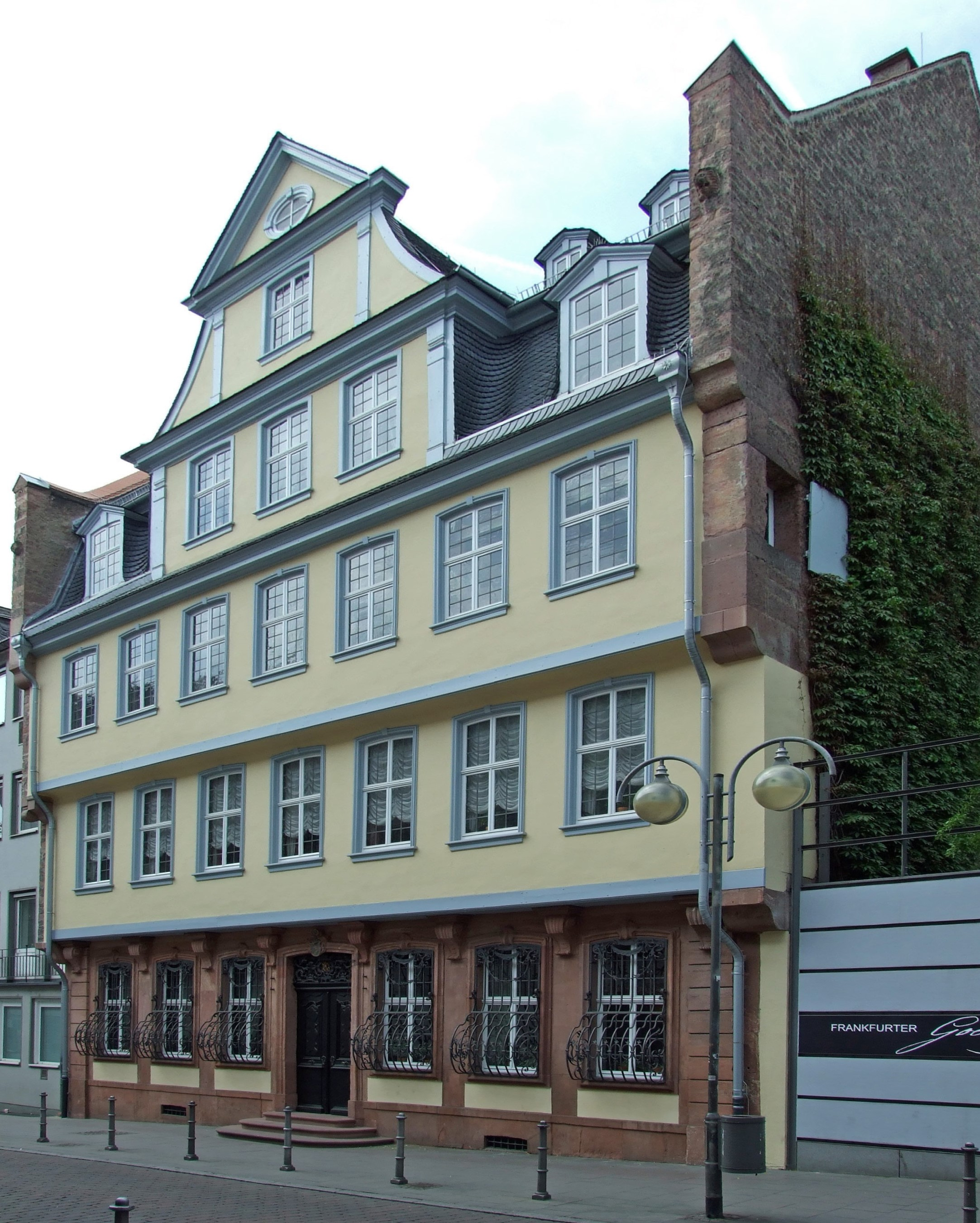 Goethe-House, Grosser Hirschgraben, Frankfurt am Main Innenstadt